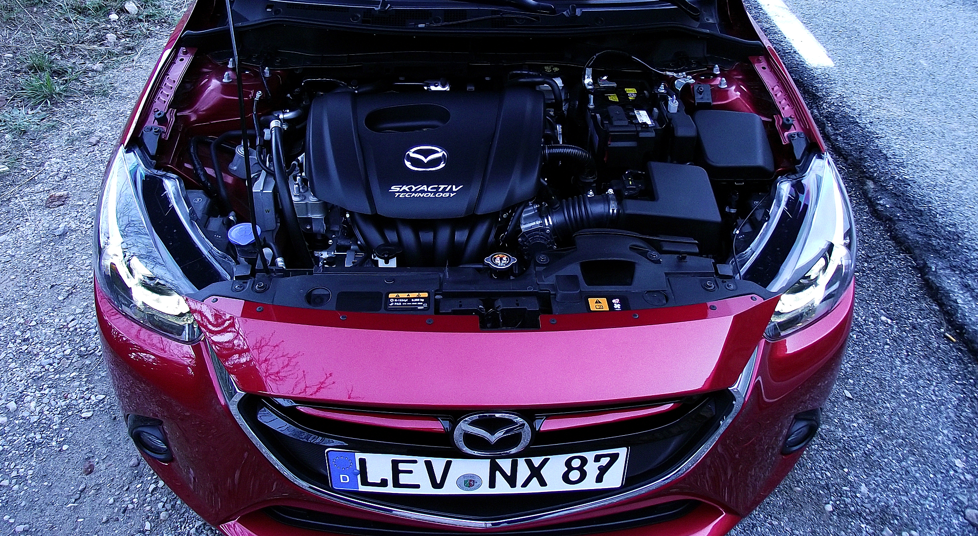 Mazda2 1.5 SKYACTIV-G 115 i-ELOOP Engine Bay